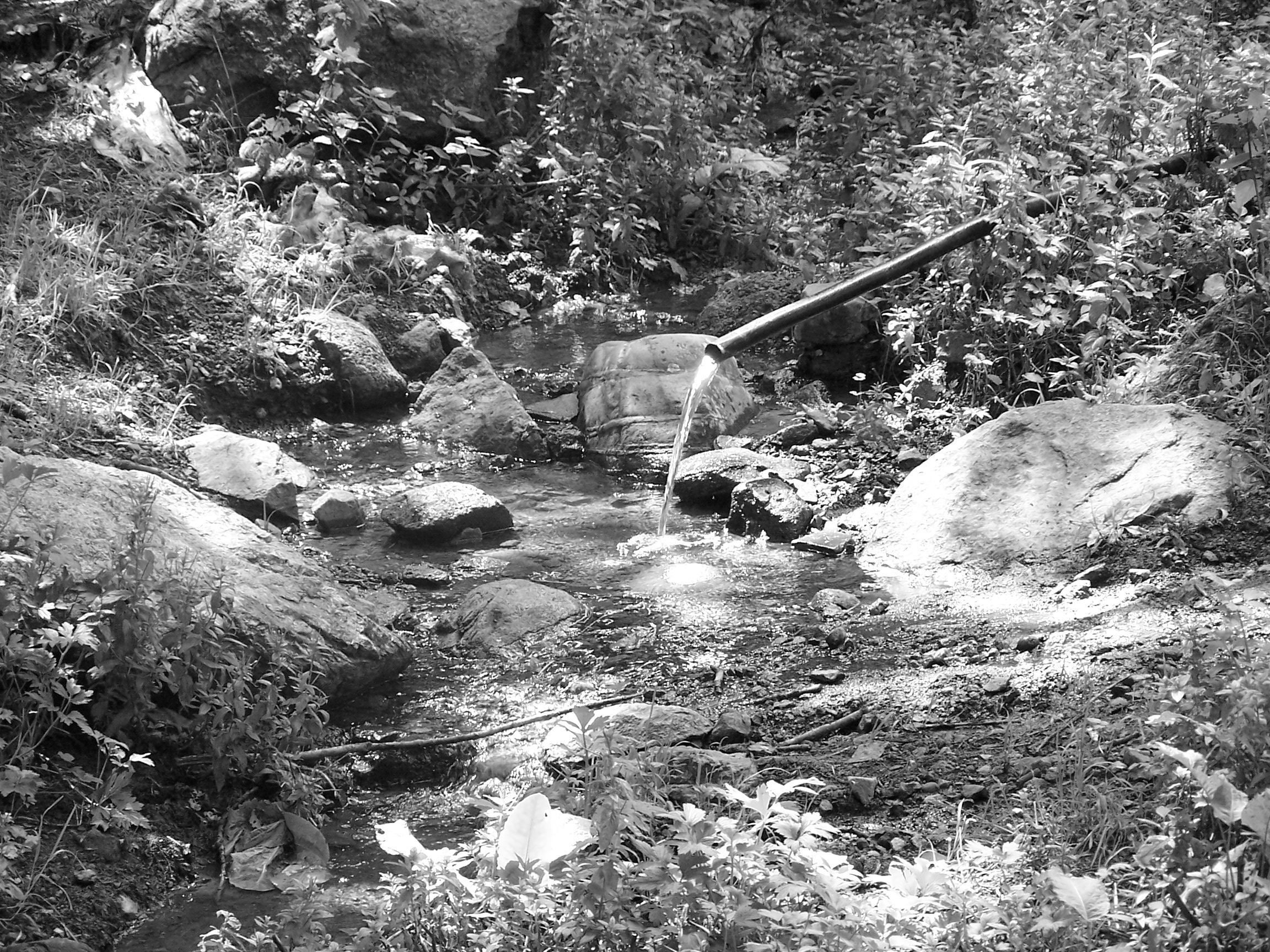 Poliyana spring